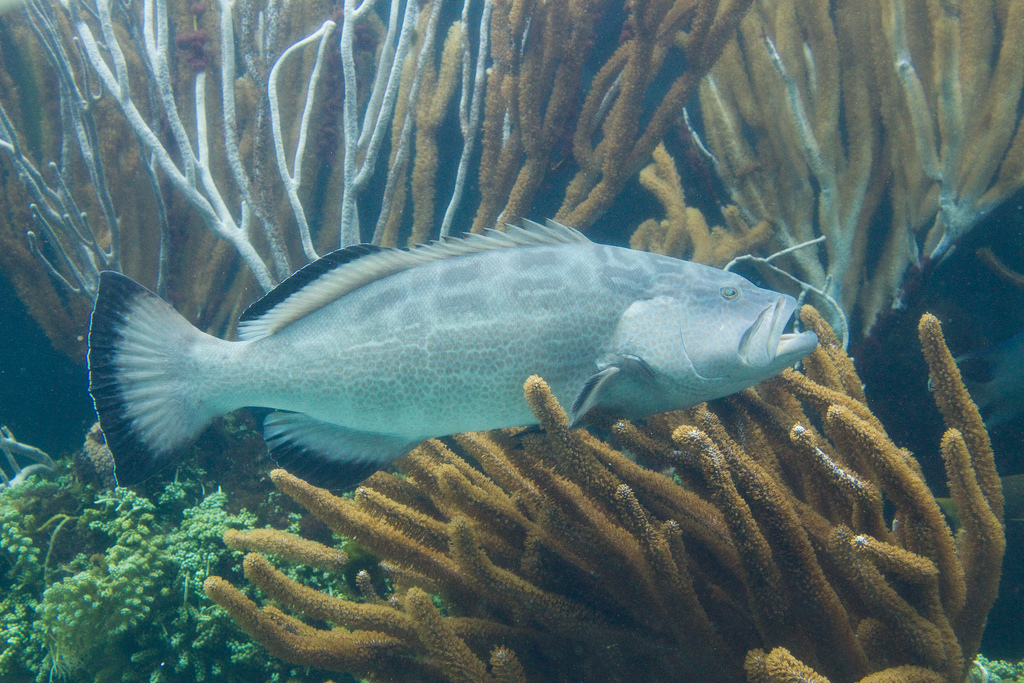 Mycteroperca bonaci Black Grouper Fish